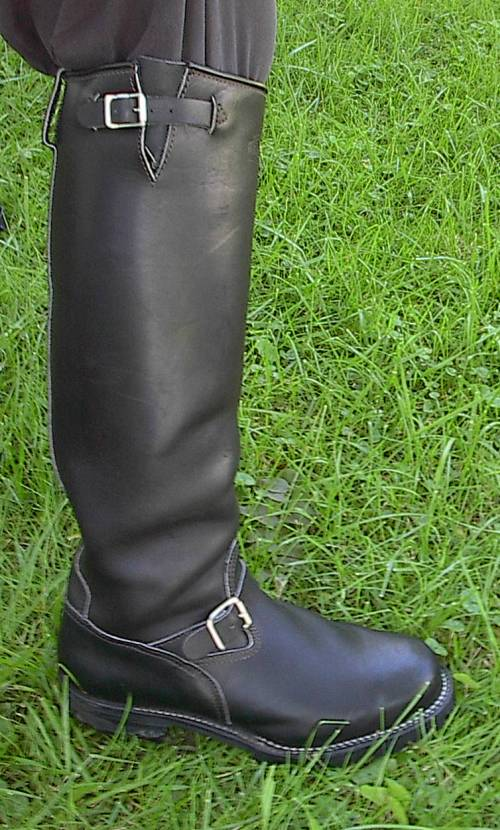 20" Tall Engineer Style Boot.